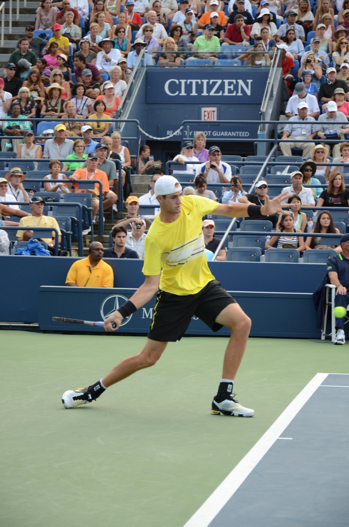 John Isner at the US Open 2011, 2nd Round